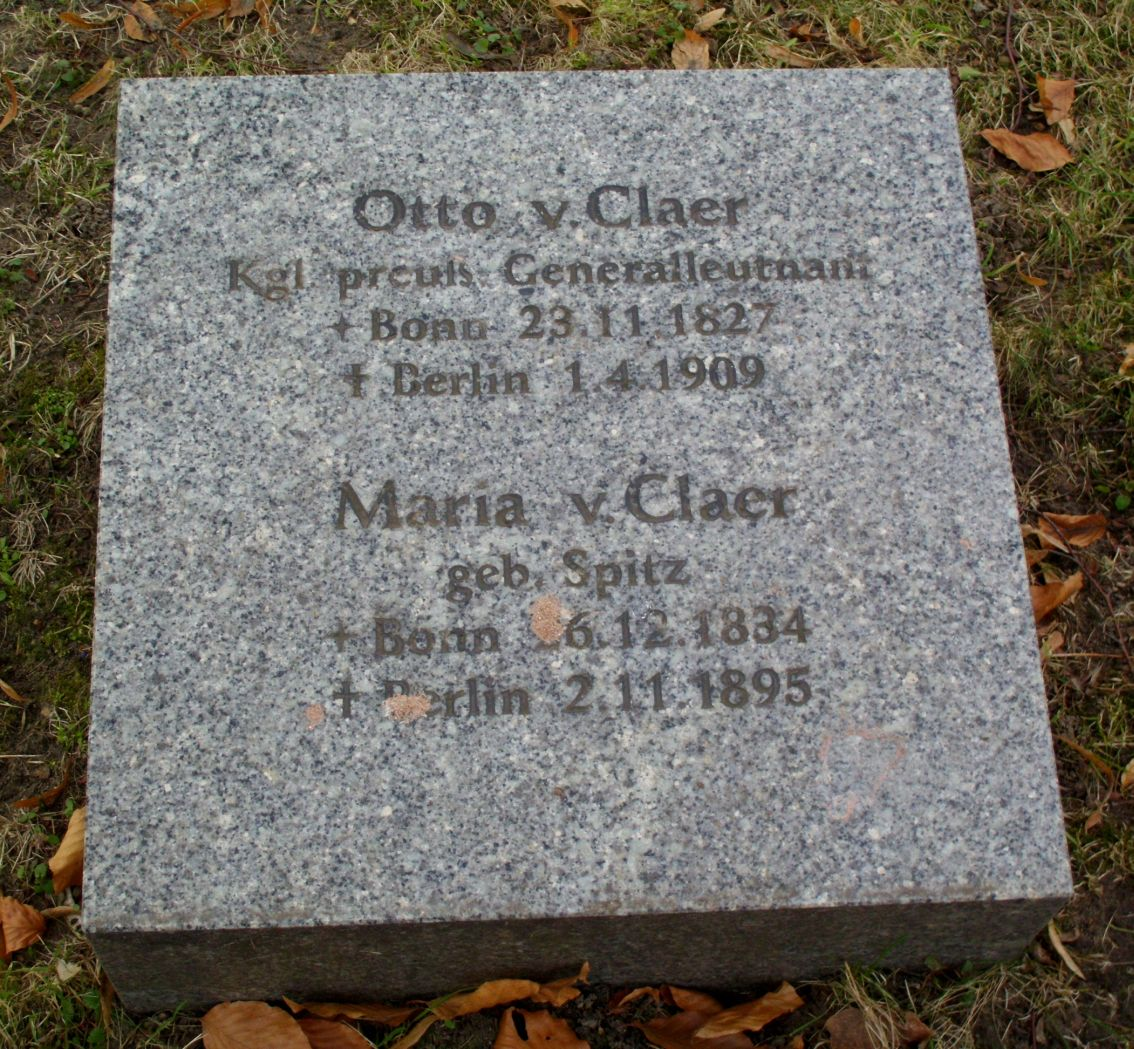 Grave of Otto and Maria von Claer